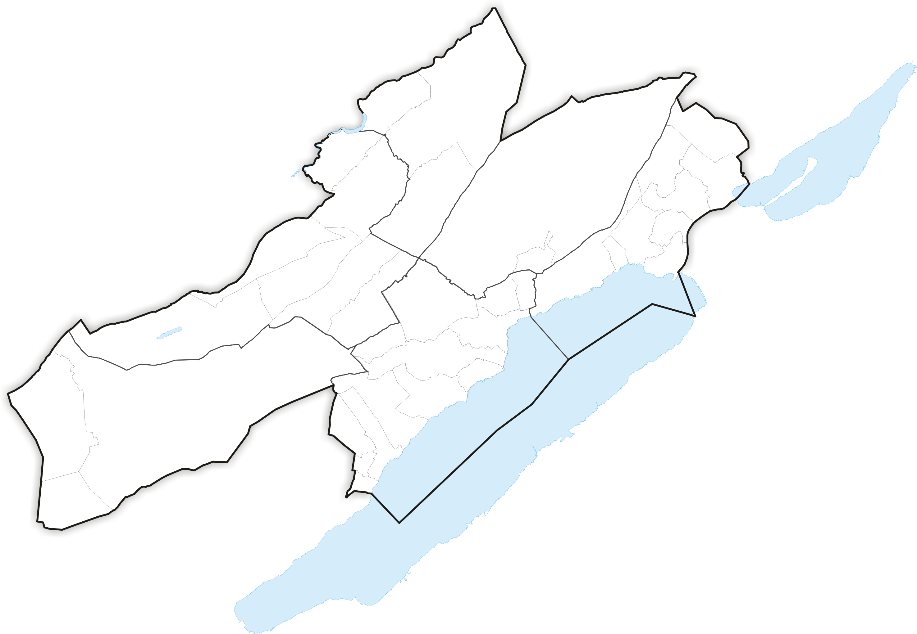 Municipalities in Canton Neuenburg